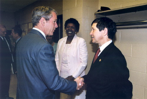 Congressman Dennis J. Kucinich welcomes President George W. Bush to Cleveland to talk about Education Reforms. July 1, 2002